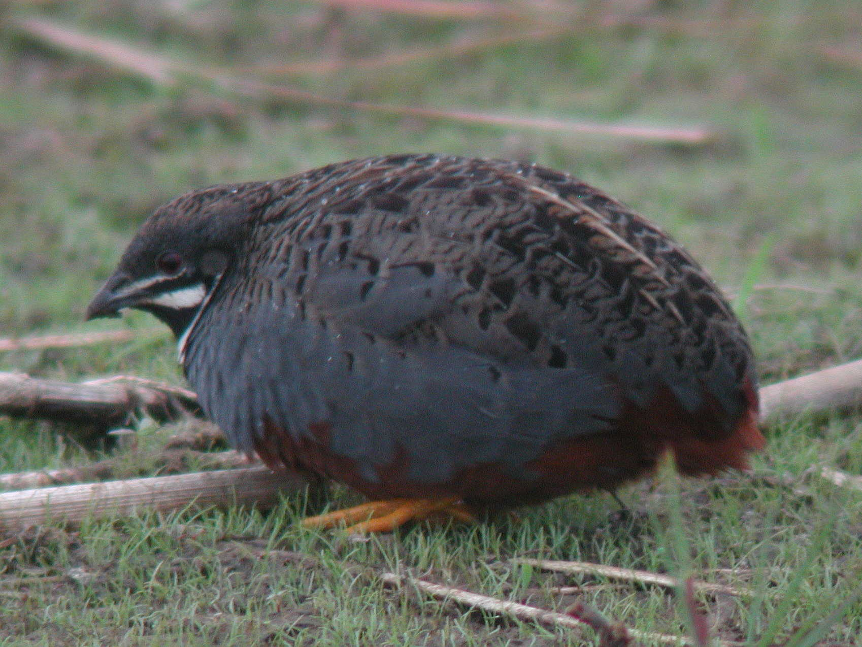 Male Blue-breasted Quail (Coturnix chinensis) Samsonvale Cemetery, SE Queensland, Australia